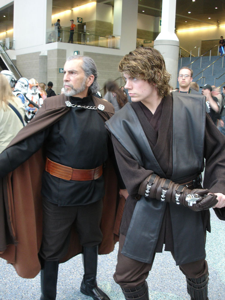 Star Wars Celebration IV - Count Dooku and Anakin Skywalker fan costumes